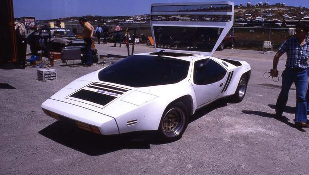 First Vector prototype, shot in 1979 for Mr. Wiegert